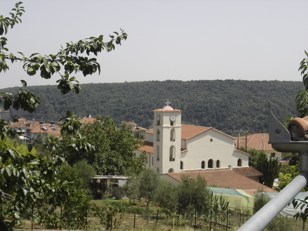 View from Fotina.